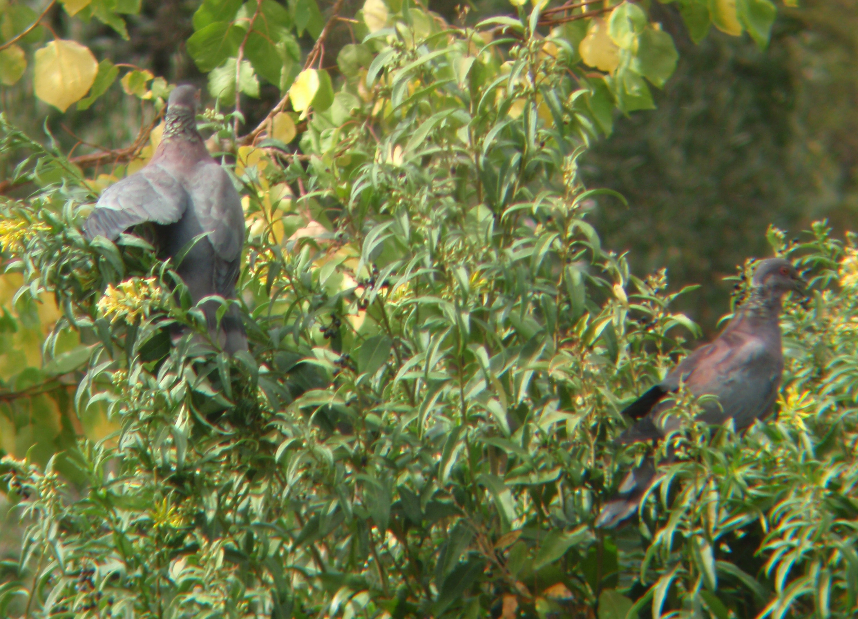 Chilean Pigeons roosting in a fig tree in Rio de los Cipreses National Reserve in central Chile.